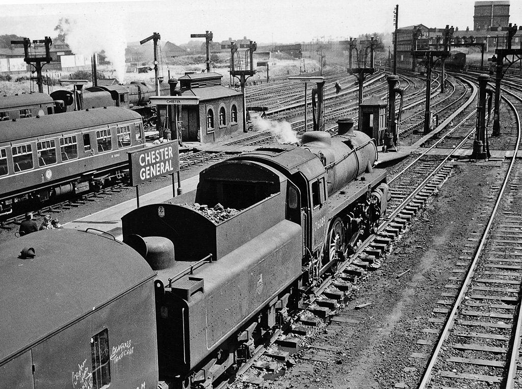 The east end of Chester General Station on a Summer Saturday. View eastward, towards Crewe etc., also (branching to the left, just out of sight), Manchester via Warrington; ex-London & North Western major centre shared with the ex-Great Western Birmingham - Shrewsbury - Chester - Birkenhead route (which entered and left from the western end of the station). In the foreground is BR Standard 4MT 2-6-0 No. 76089 on the 12.30 Abergele - Manchester (Victoria); in the centre left is a Diesel multiple-unit and beyond a Stanier 5MT 4-6-0, both on Up services from North Wales. Ahead is Chester No. 2 Box.